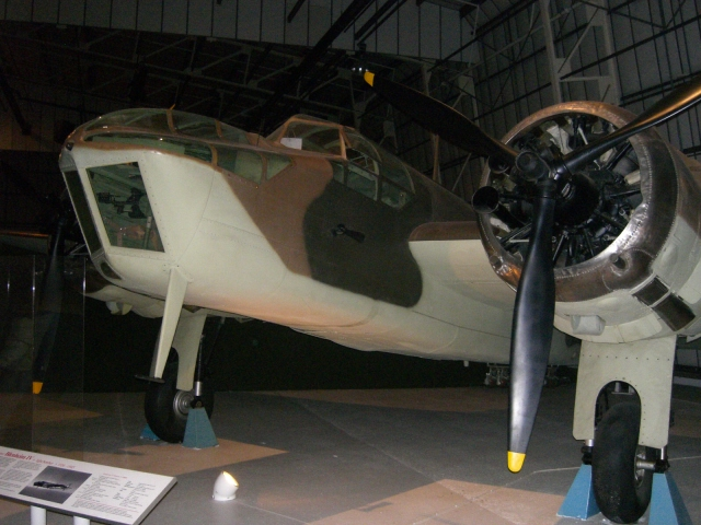 A Bristol Blenheim IV bomber at the RAF Museum London. Aircraft was originally a RCAF Bolingbroke restored in July 1978 to represent Blenheim L8756/XD-E of No. 139 Squadron RAF (the real L8756/XD-E, although survived the early stages of World War 2, was 'struck off charge' on 4 May 1944).